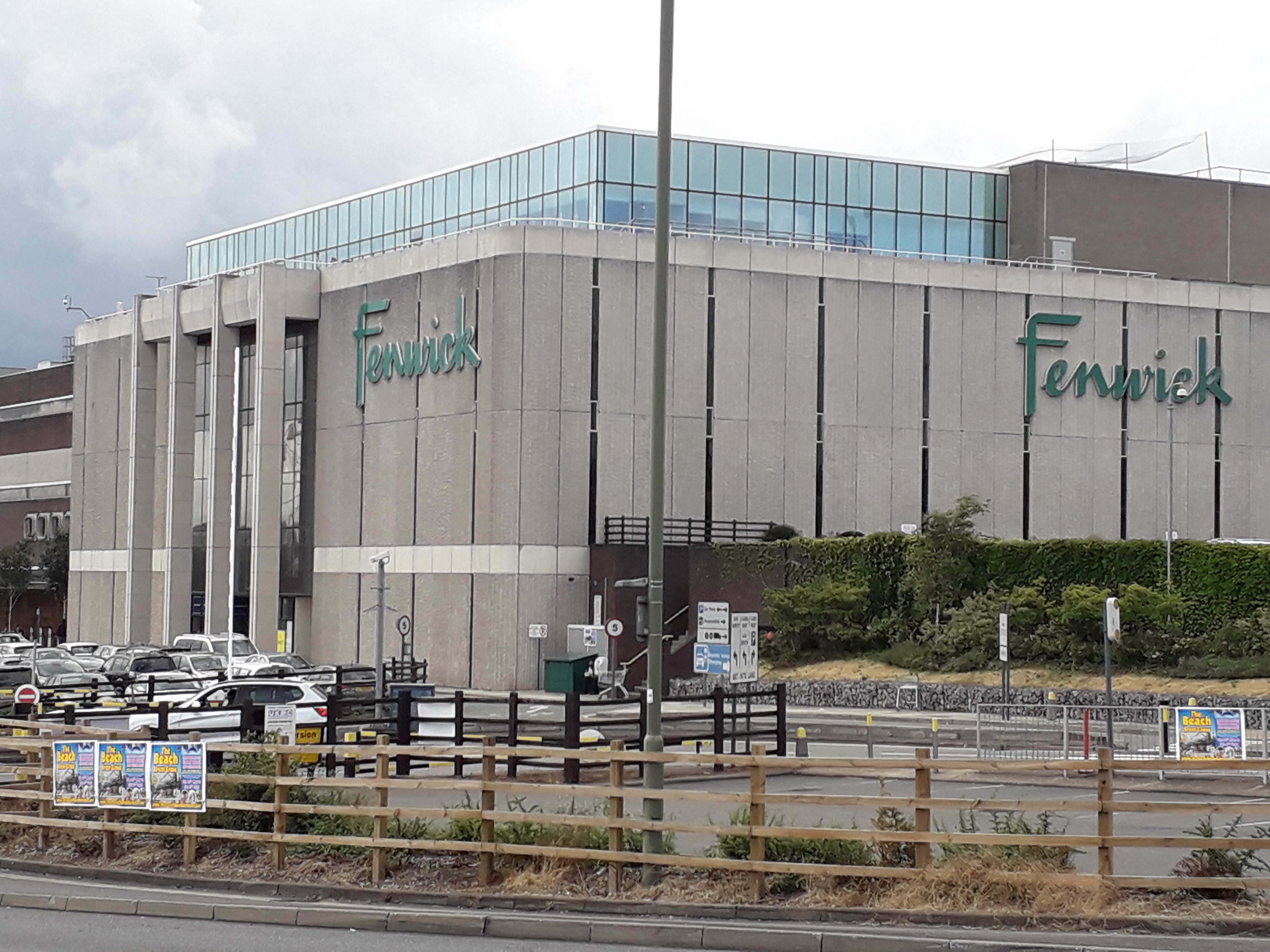 Fenwick's at Brent Cross - Jul 2018